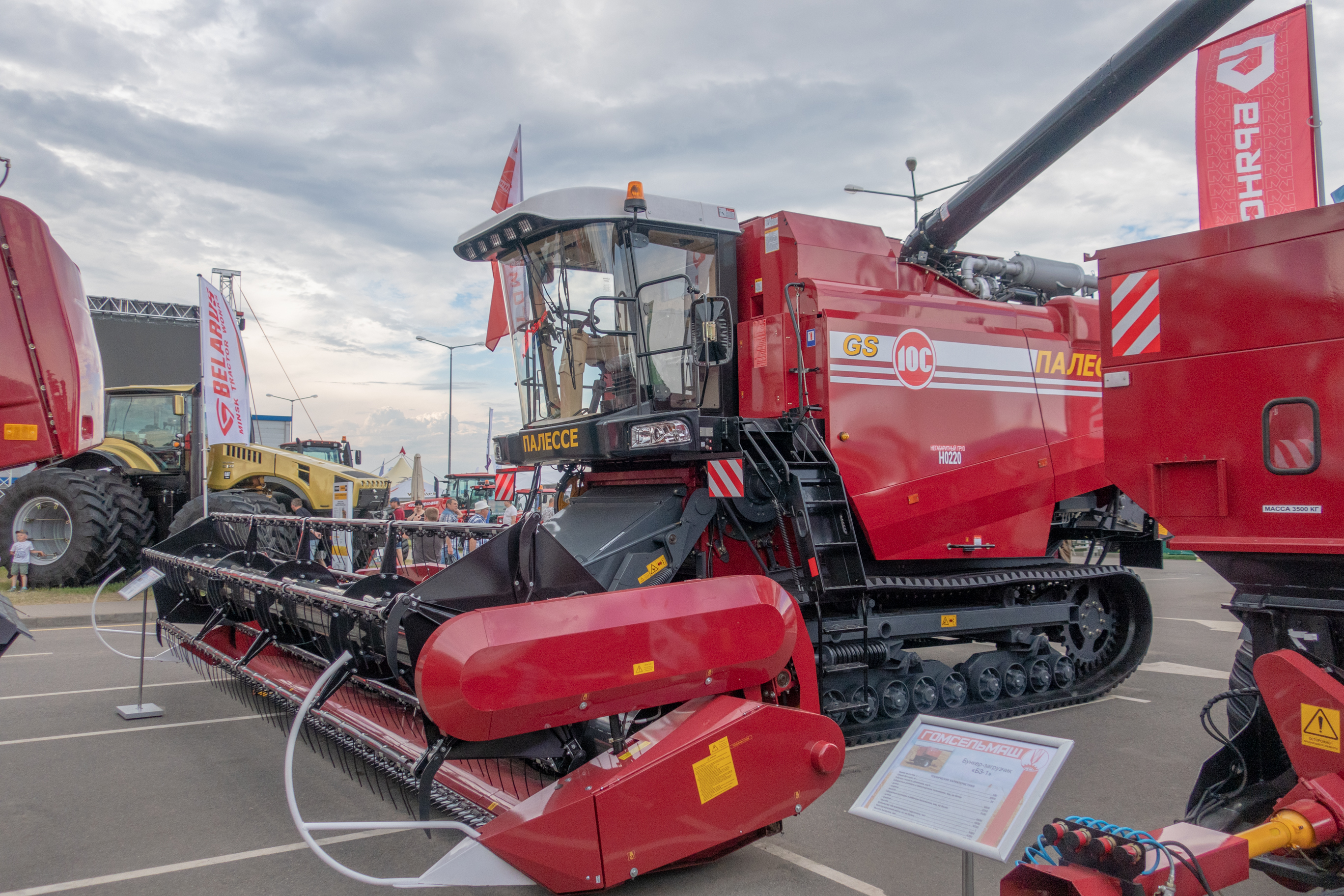 Grain combine harvester Palesse GS 10C (tracked modification) by Gomselmash factory. Photo taken at Belagro-2019 exhibition (Minsk district, Belarus)